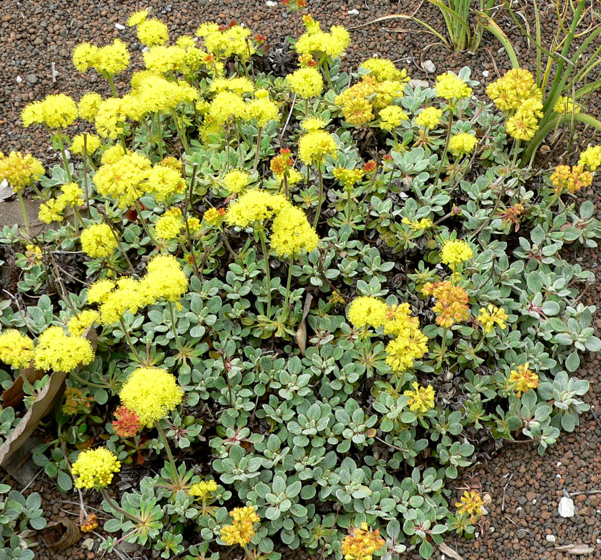 Photo of Eriogonum umbellatum var. humistratum at the University of California Botanical Garden